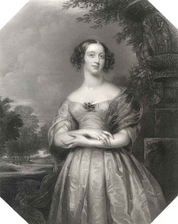 Portrait of Mary Neave, nee Arundell, wife of Sir Digby Neave, 3rd Baronet, from Female Aristocracy of the Court of Queen Victoria by William Finden.